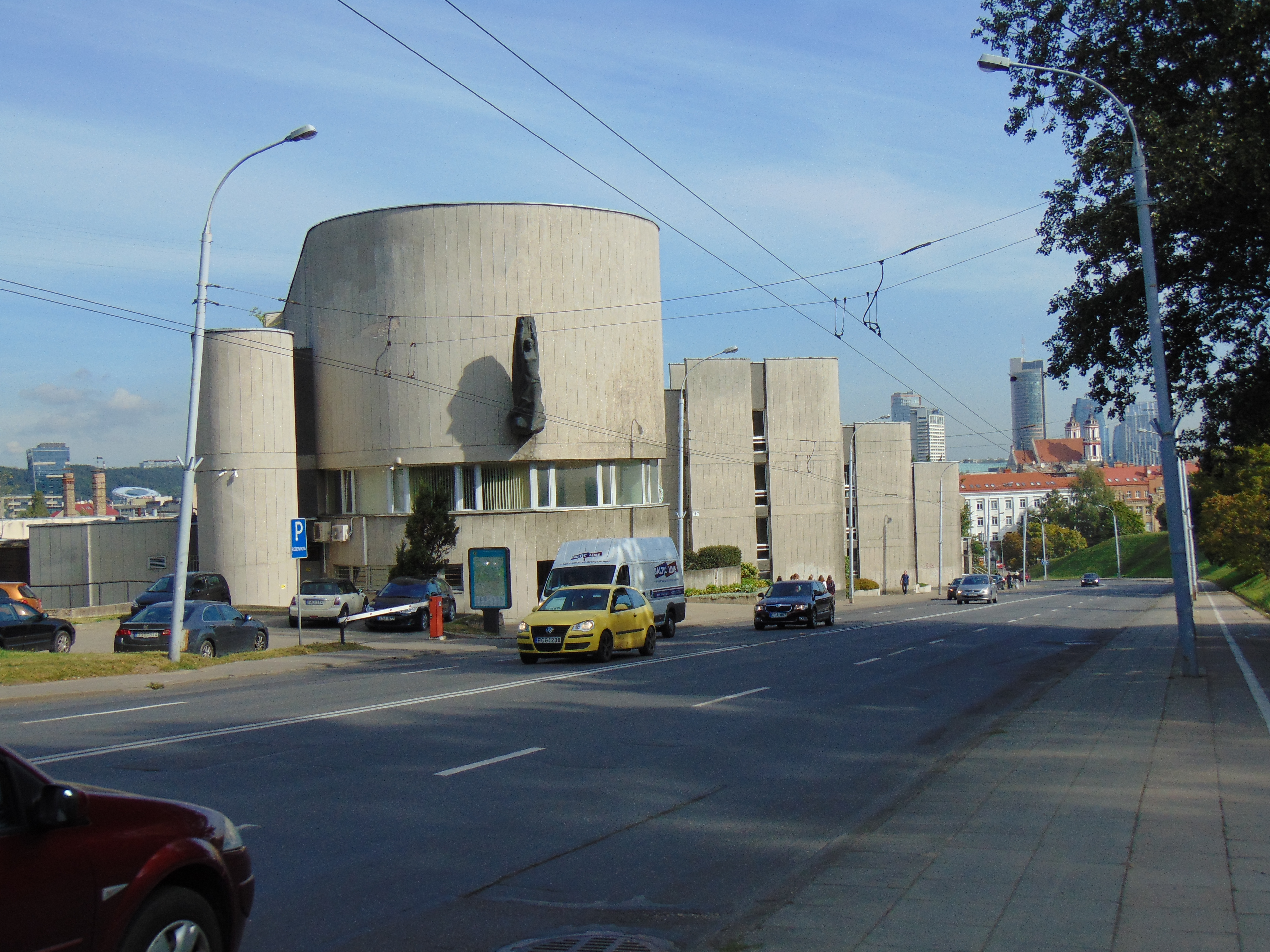 Center of Registers